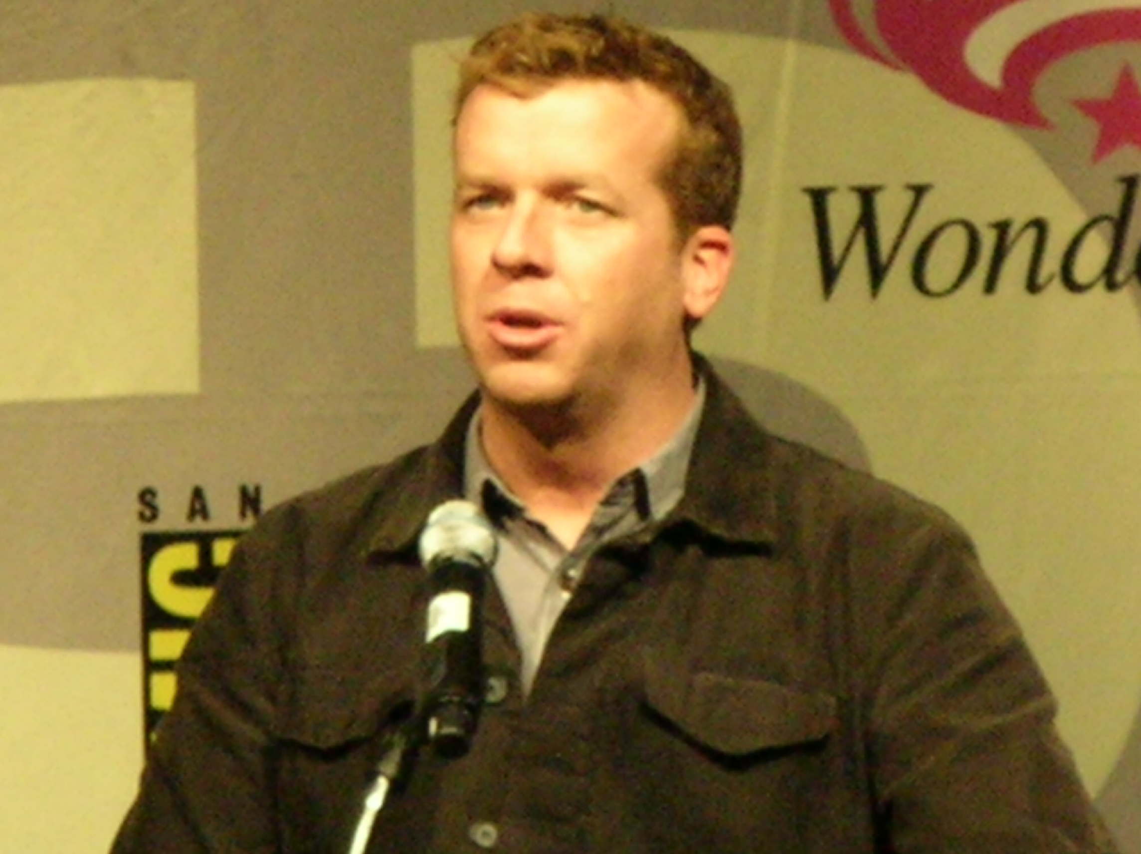 Director McG talks about Terminator Salvation at a panel discussion at WonderCon 2009.